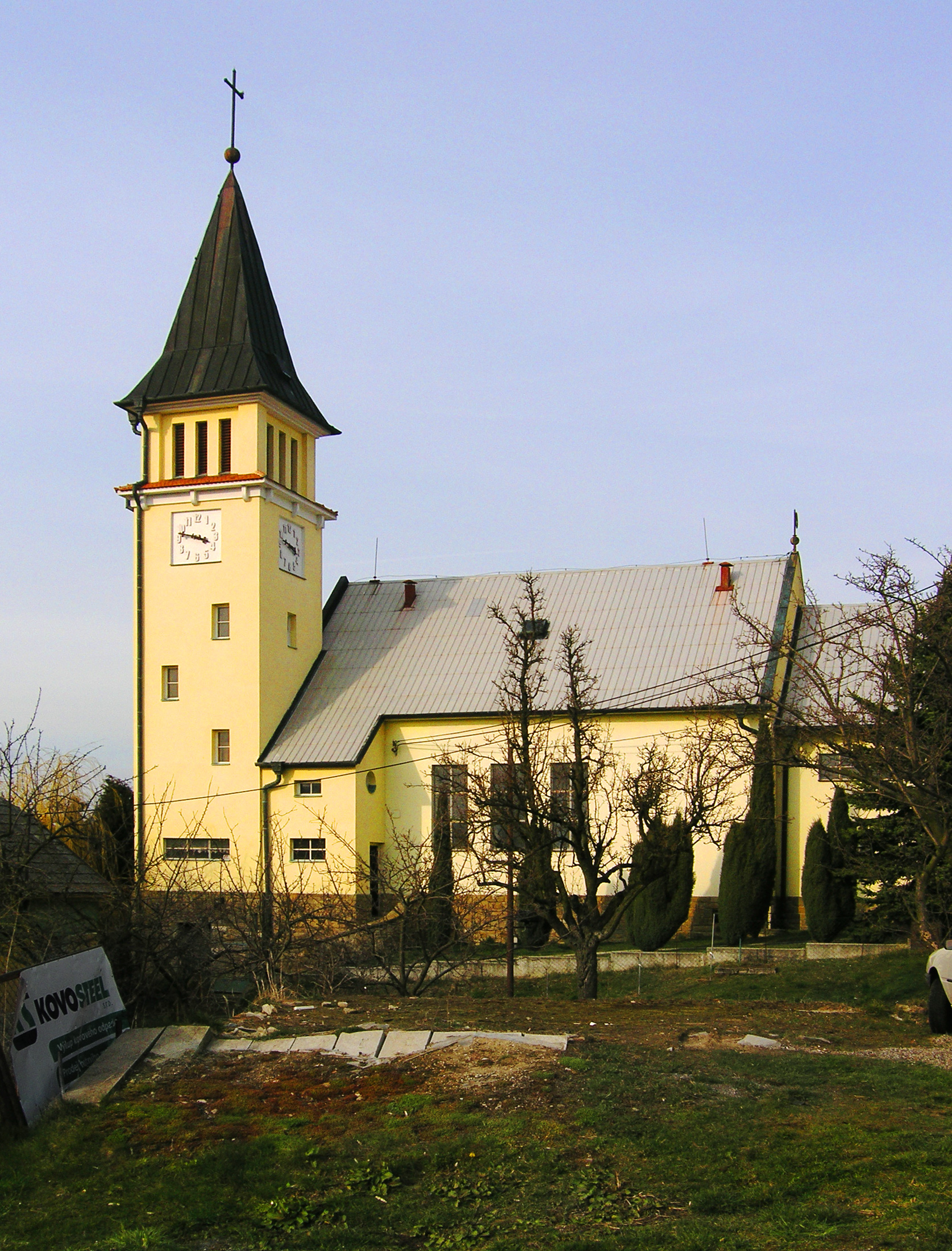 Saints Cyril and Methodius church in Tučapy, Uherské Hradiště District, Czech Republic